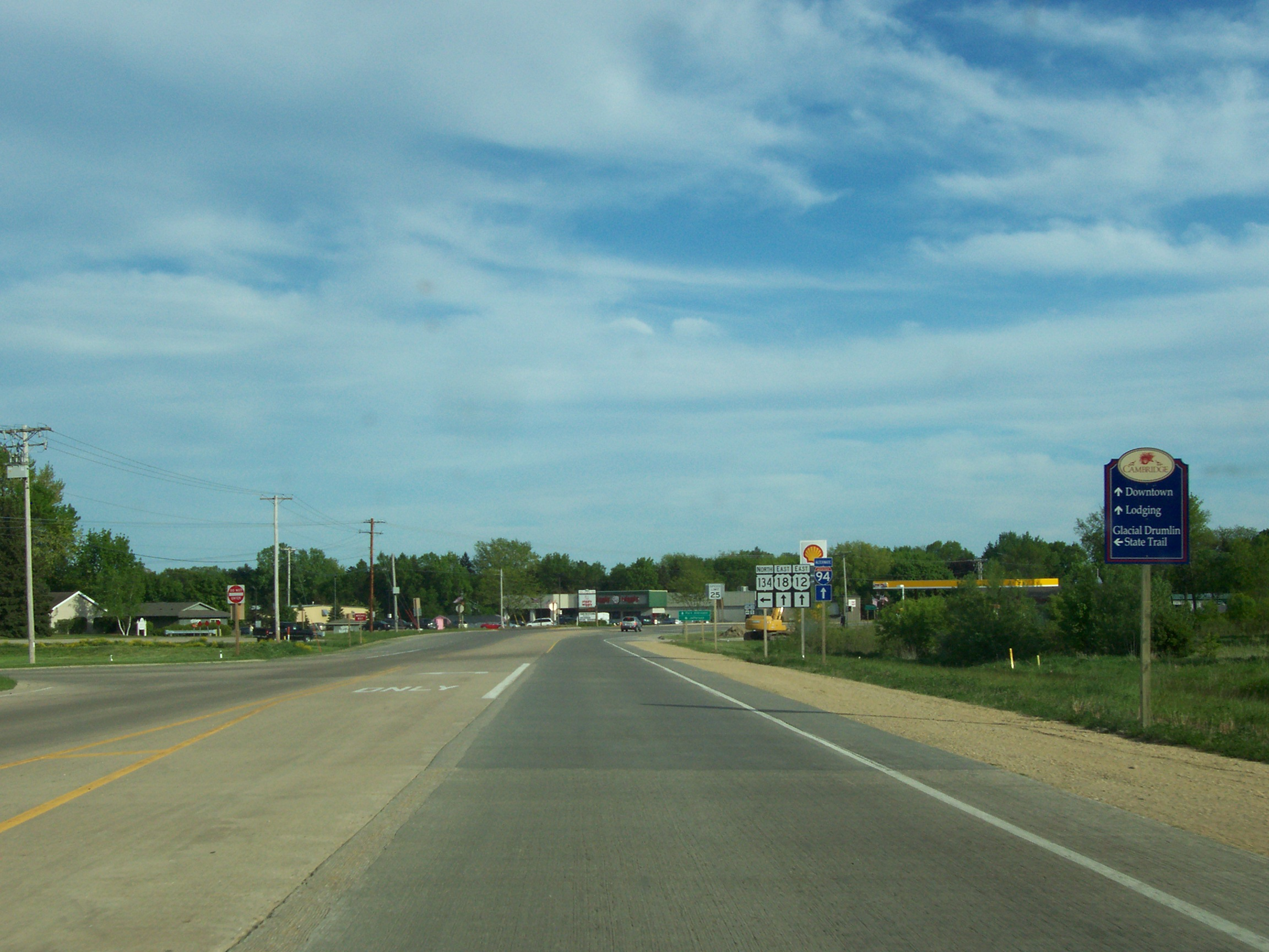 Entering Cambridge, Wisconsin from the west looking east while traveling on U.S. Route 12 / U.S. Route 18 at the southern terminus of Wisconsin Highway 134.